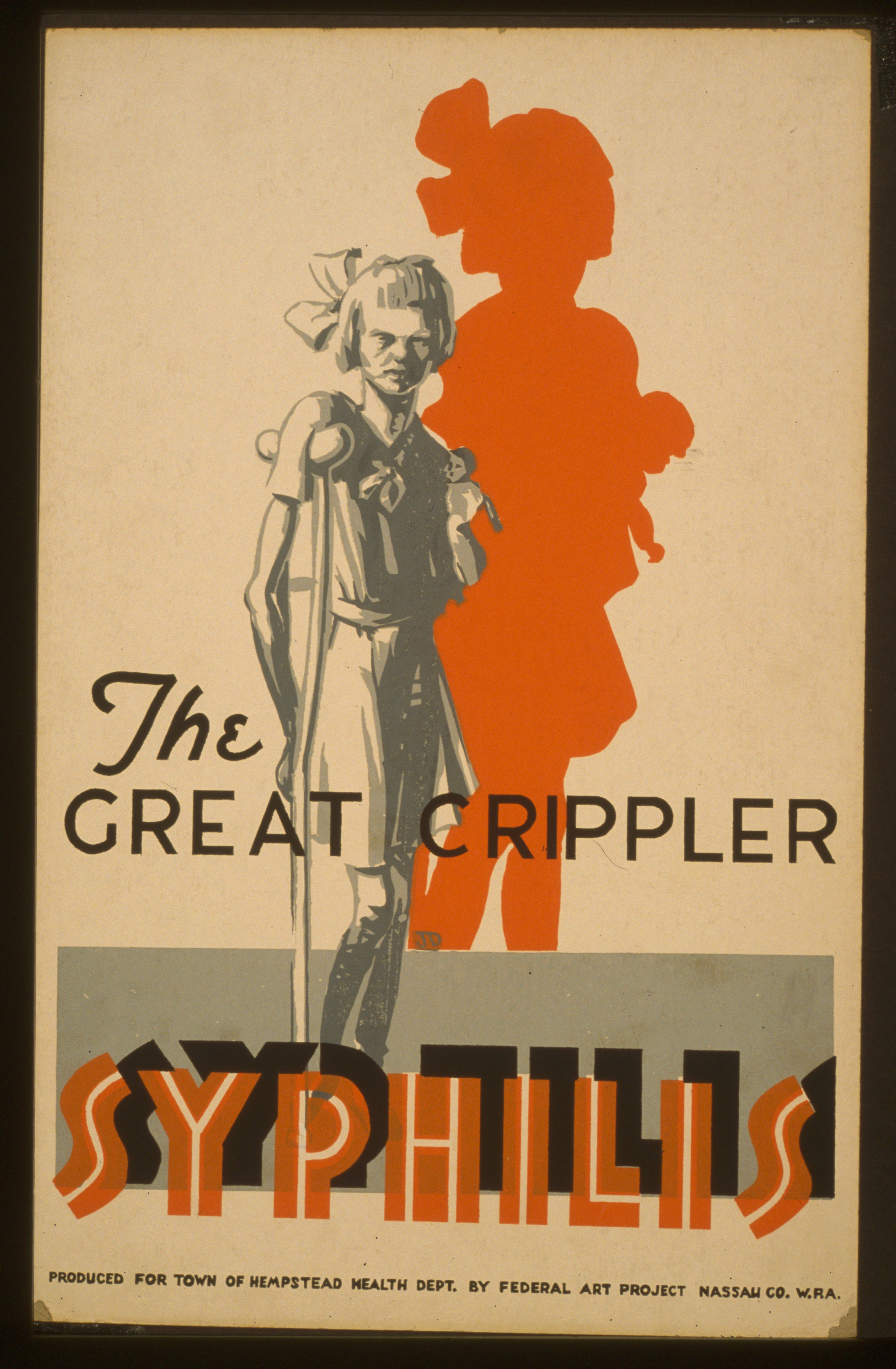 The great crippler - syphilis, original file, quality 12 jpeg export of original tiff, unrestored